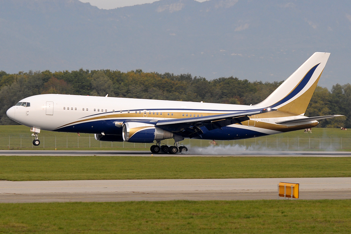 A Mid East Jet Boeing 767-200 landing in Geneva